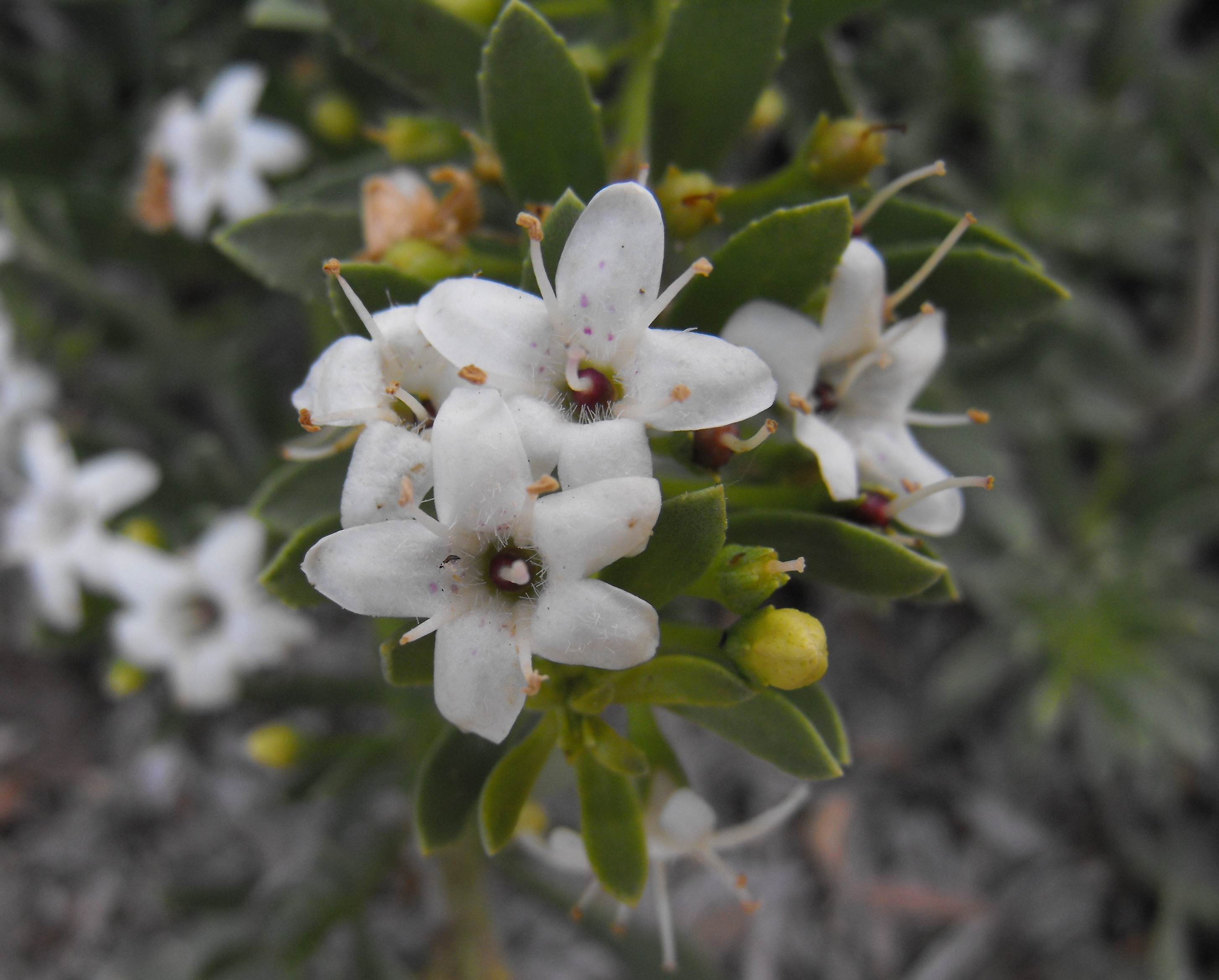 Myoporum parvifolium at Quail Botanical Gardens in Encinitas, California, USA.